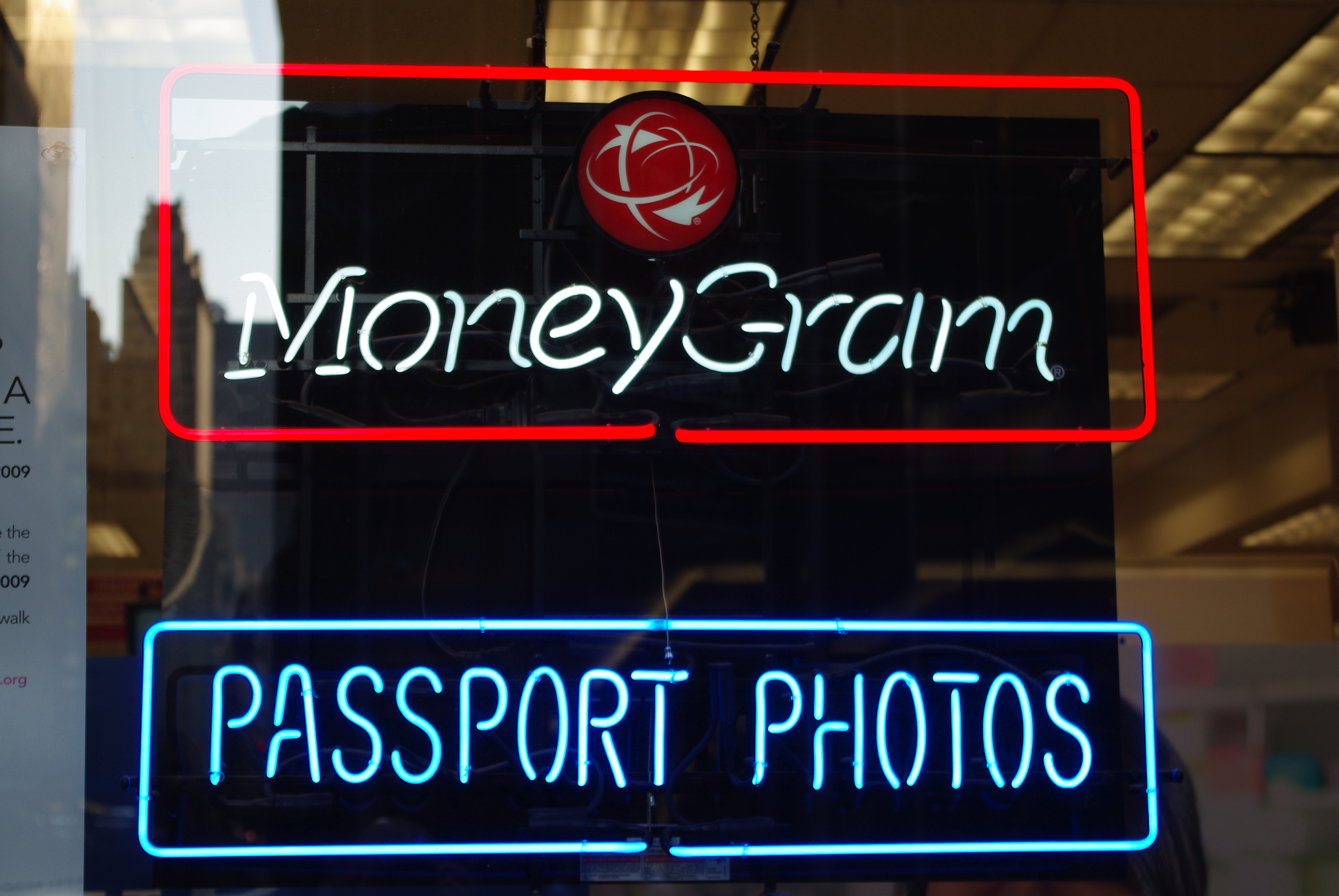 MoneyGram - Passport - Photos neon sign in New York